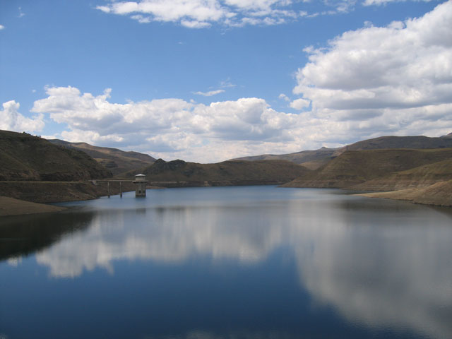 Reservoir and intake tower behind the Katse Dam, Lesotho